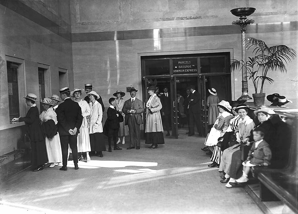 The interior of the North Toronto CPR station. Toronto, Canada.